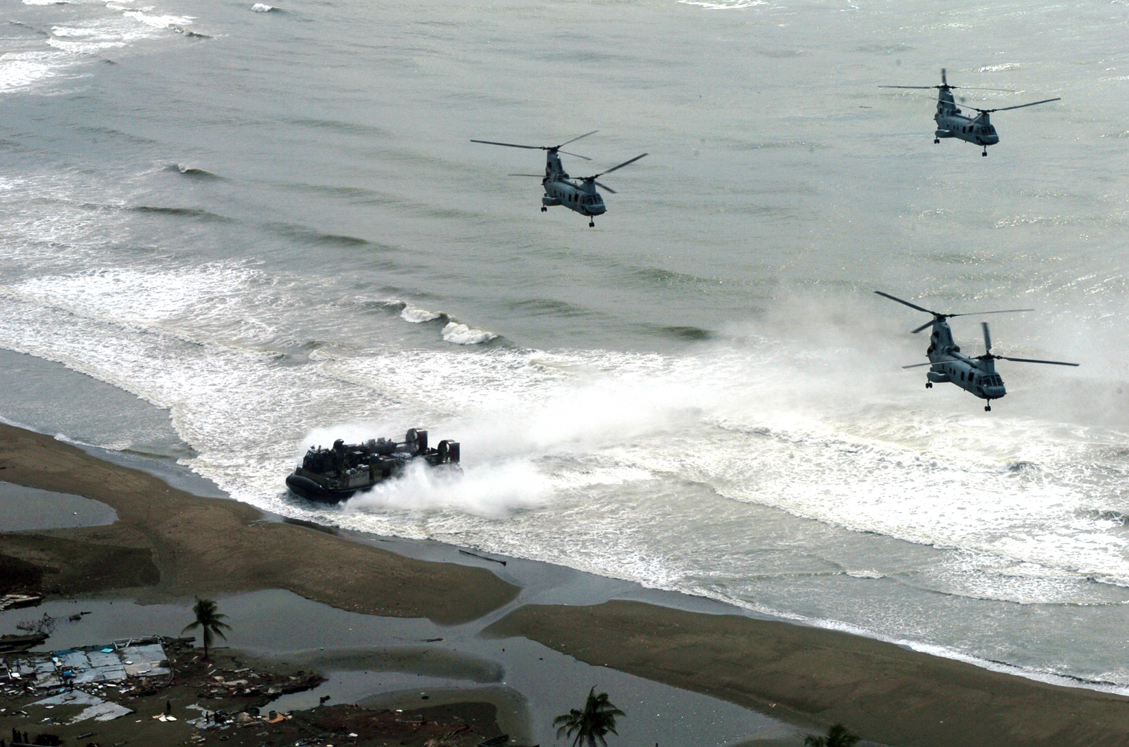 Meulaboh, Sumatra, Indonesia (Jan. 10, 2005) - Landing Craft Air Cushion (LCAC) vehicles and Marine CH-46 Sea Knight helicopters, assigned to USS Bonhomme Richard (LHD 6) and Expeditionary Strike Group Five (ESG-5), deliver needed materials and supplies to the citizens in the city of Meulaboh, on the island of Sumatra, Indonesia. The LCACs are capable of transporting more supplies than helicopters in a single trip. The Bonhomme Richard Expeditionary Strike Group is currently operating in the Indian Ocean off the waters of Indonesia and Thailand in support of Operation Unified Assistance, the humanitarian operation effort in the wake of the Tsunami that struck South East Asia. U.S. Navy photo by Photographer's Mate 1st Class Bart A. Bauer (RELEASED)